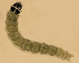 Stainton’s Natural History of the Tineina (1855–1873): Depressaria heydenii